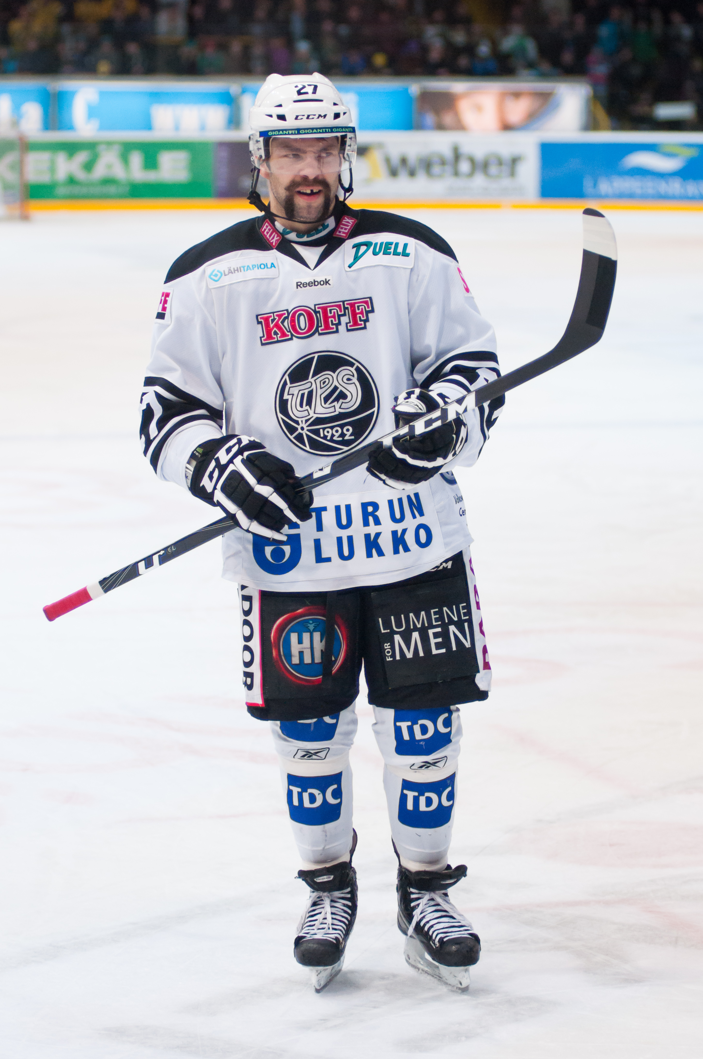 Finnish ice hockey forward Marko Virtala playing for Turun Palloseura against SaiPa Lappeenranta in Lappeenranta, Finland.